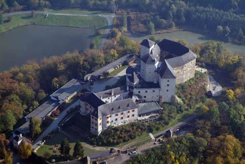 Lockenhaus, Germany, aerialphotography